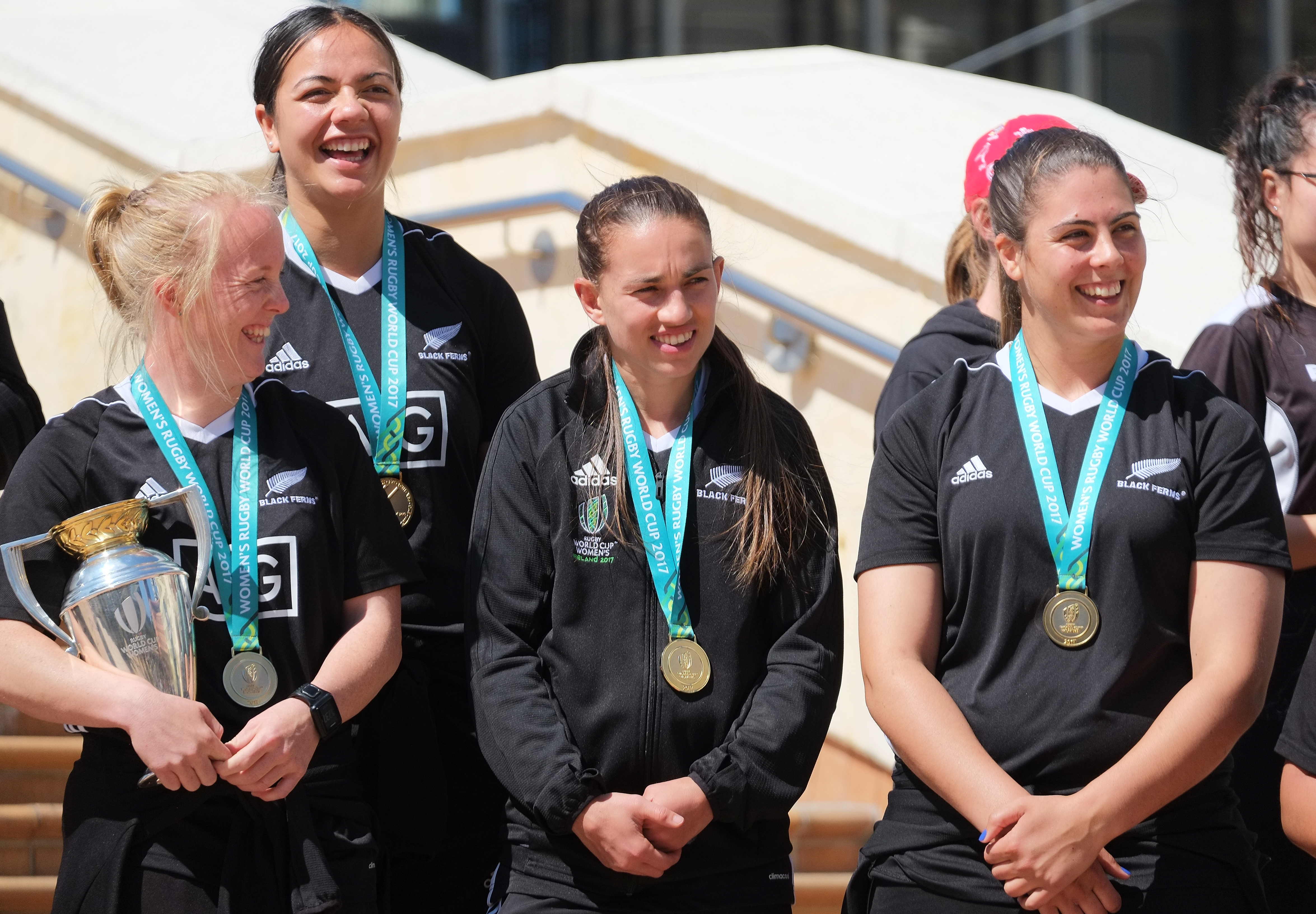 Black Ferns Kendra Cocksedge, Stacey Waaka, Selica Winiata, Eloise Blackwell with Women's Rugby World Cup trophy and WRWC medals